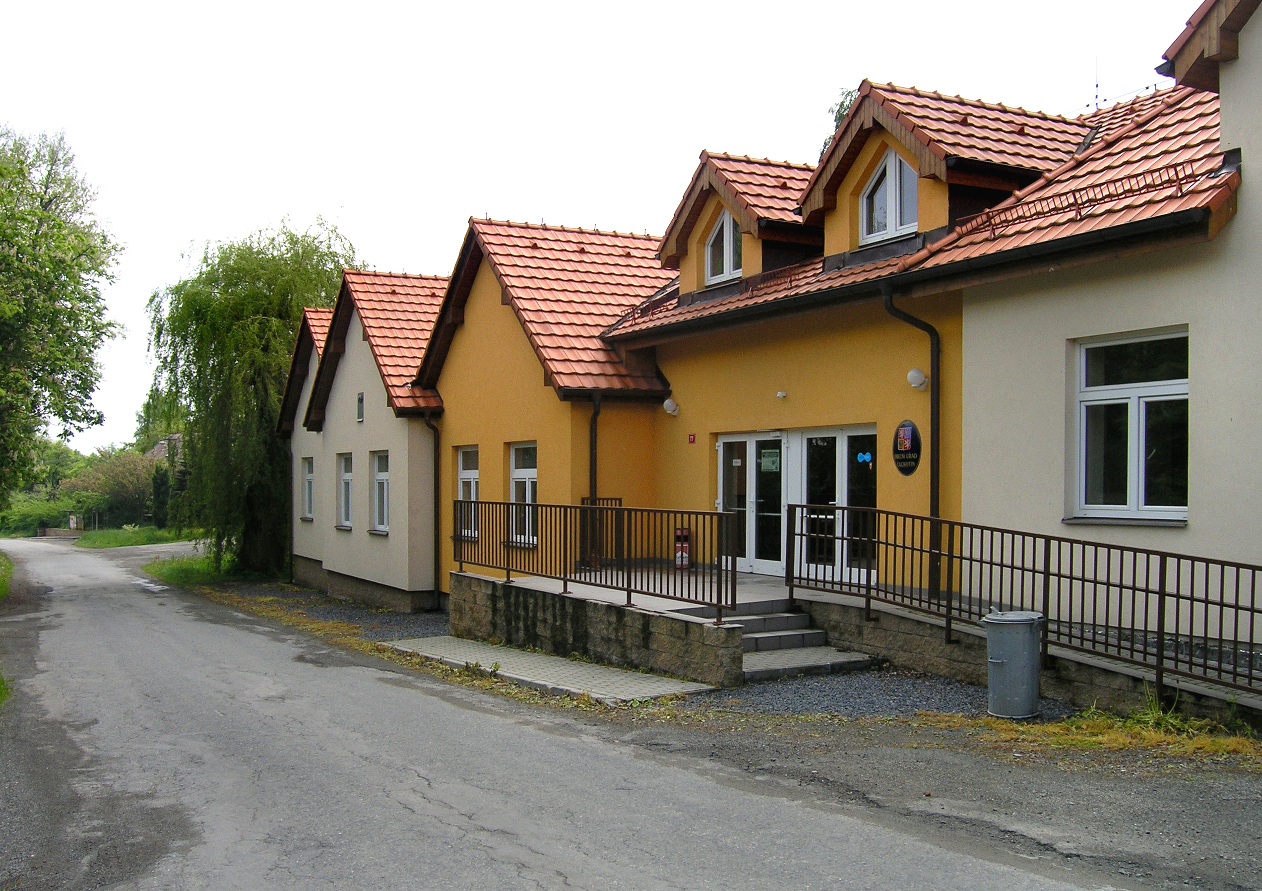 Municipal office in Čachotín village, Czech Republic